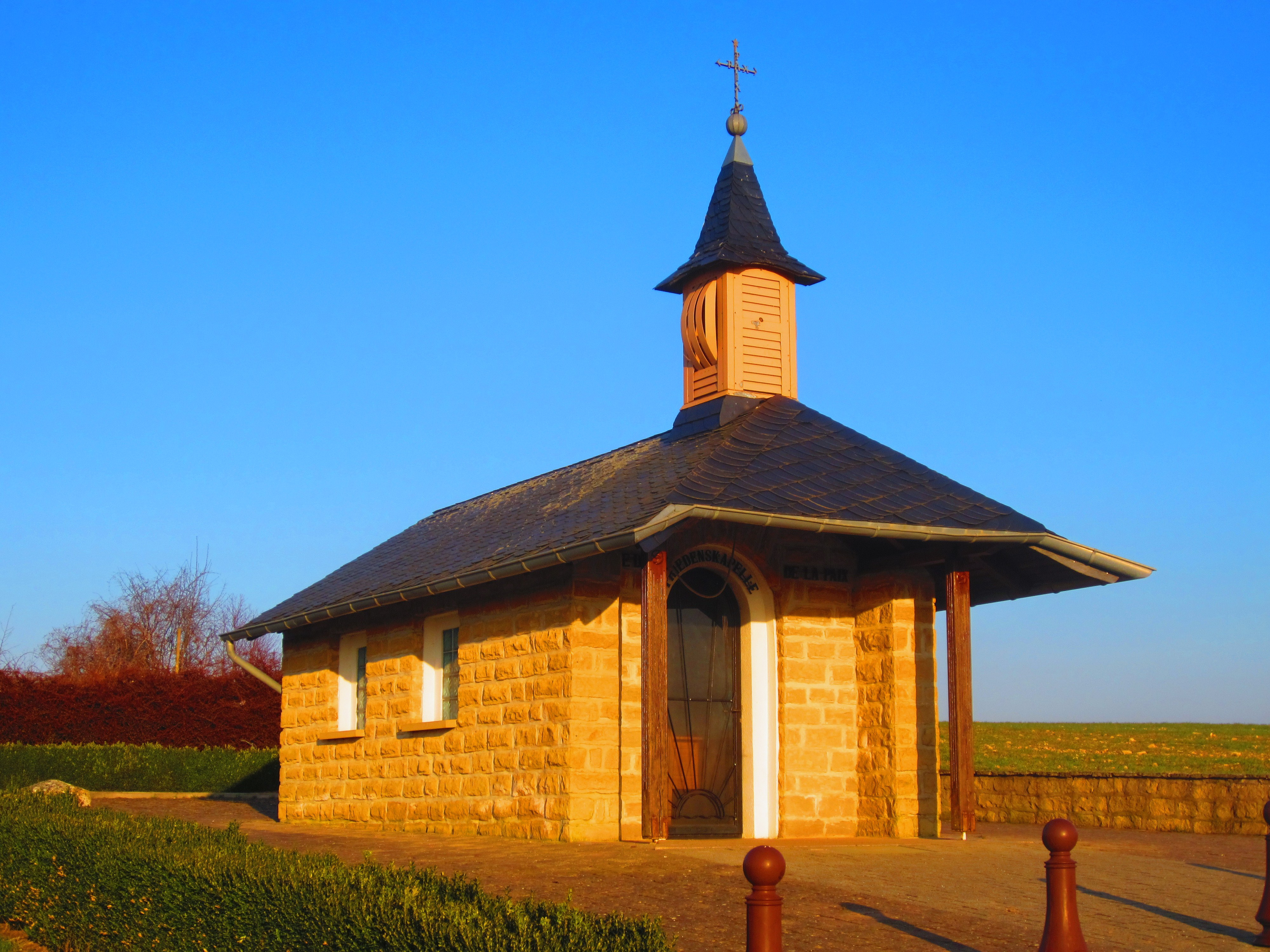 Merschweiller peace chapel